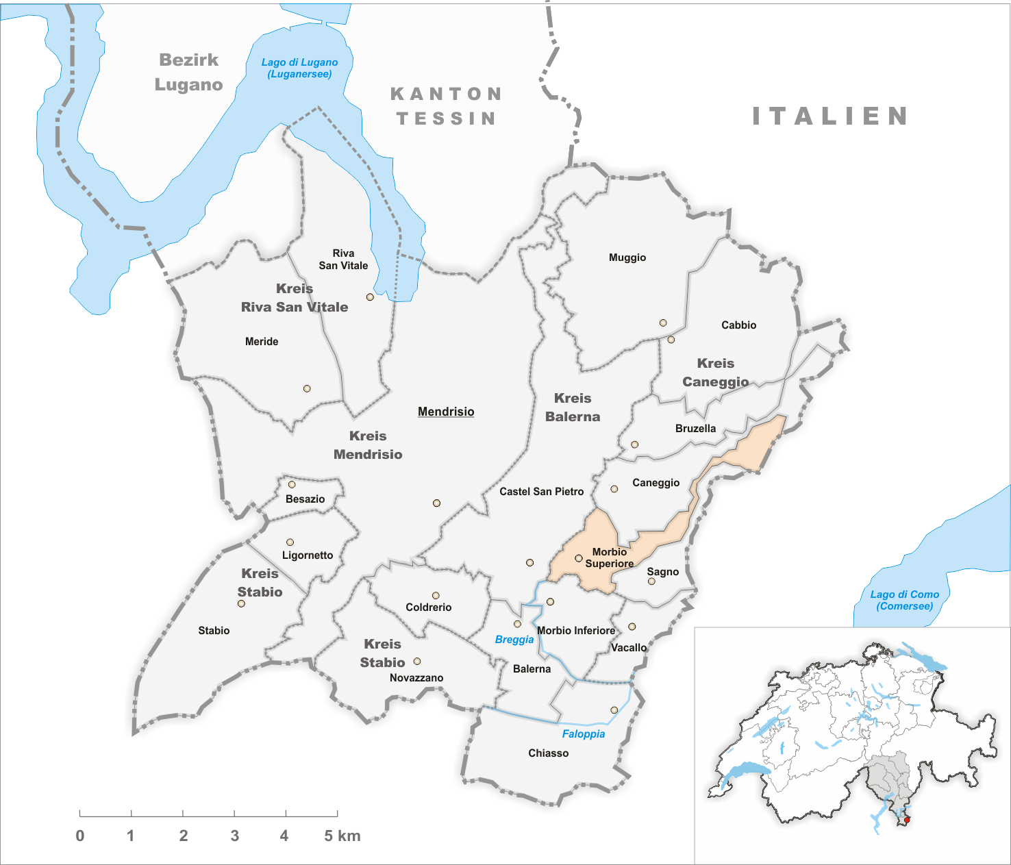 Municipality Morbio Superiore Artist: Tschubby